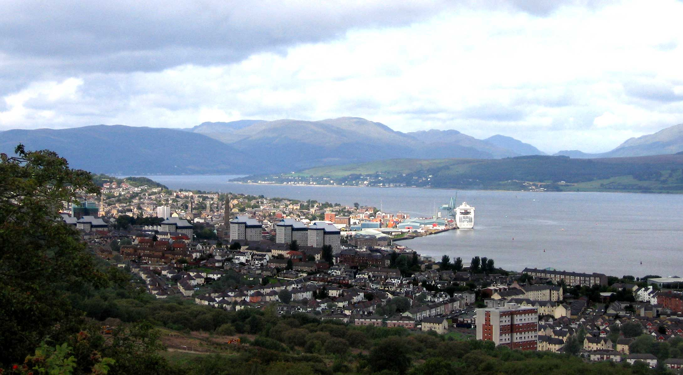 View looking west over Greenock, Scotland, and across the Firth of Clyde towards Kilcreggan. The Cruise ship Golden Princess lies at Clydeport Ocean Terminal, just beyond Greenock town centre.